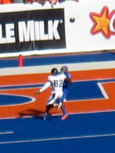 Boise State running back D.J. Harper about to catch a touchdown in the first quarter of the Broncos game vs Nevada on October 1, 2011 at Bronco Stadium in Boise, Idaho.